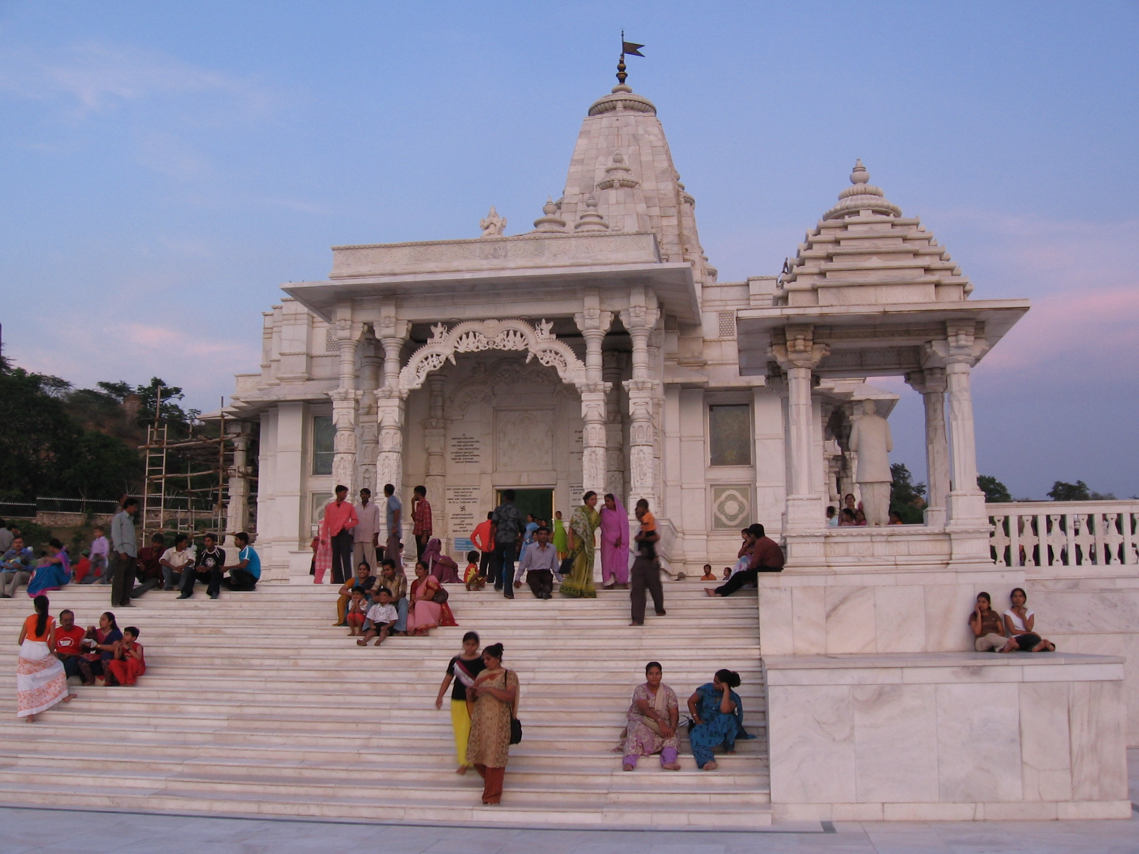 Birla Temple in Jaipur.